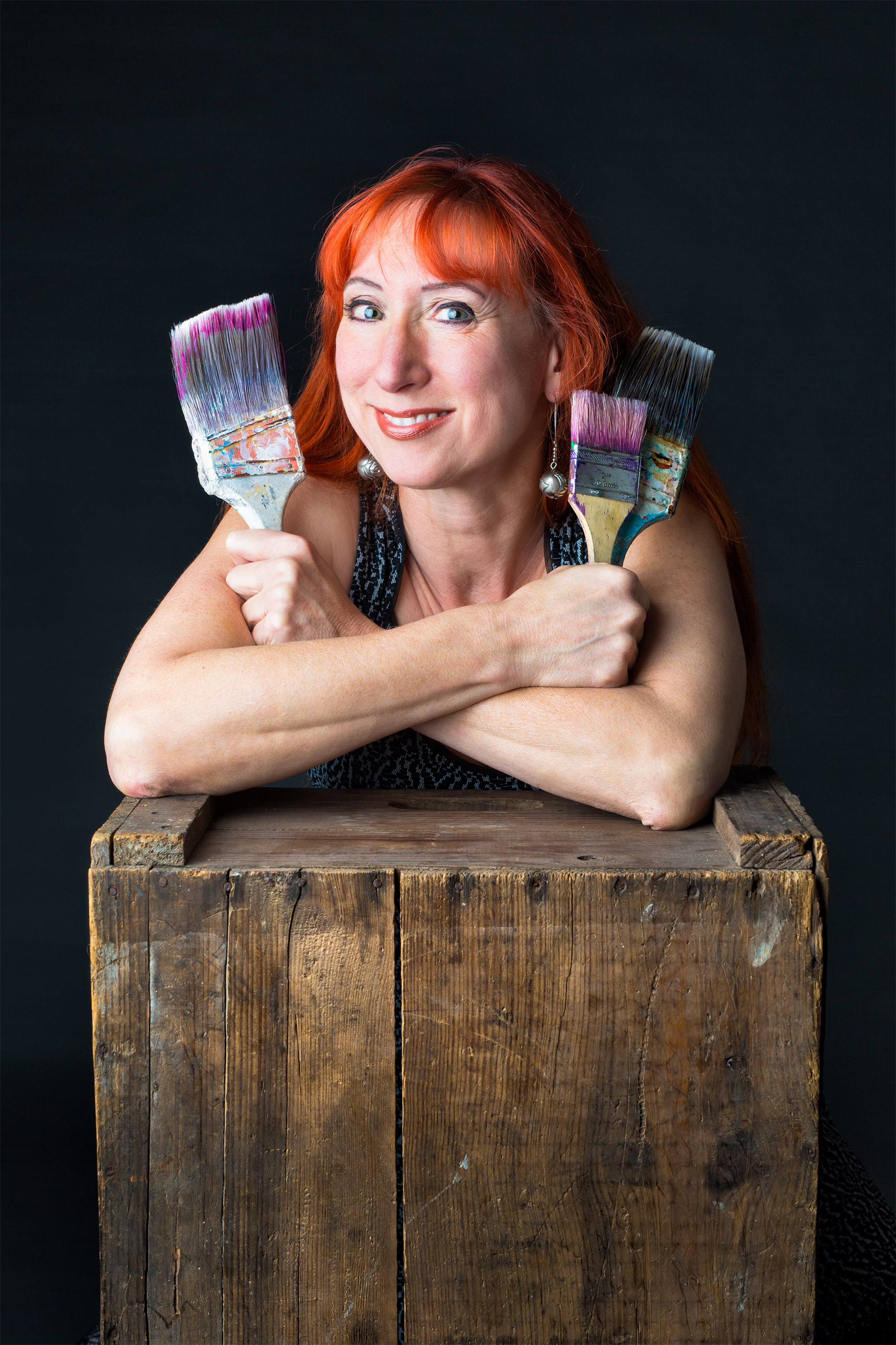 Portrait of Liz LaManche